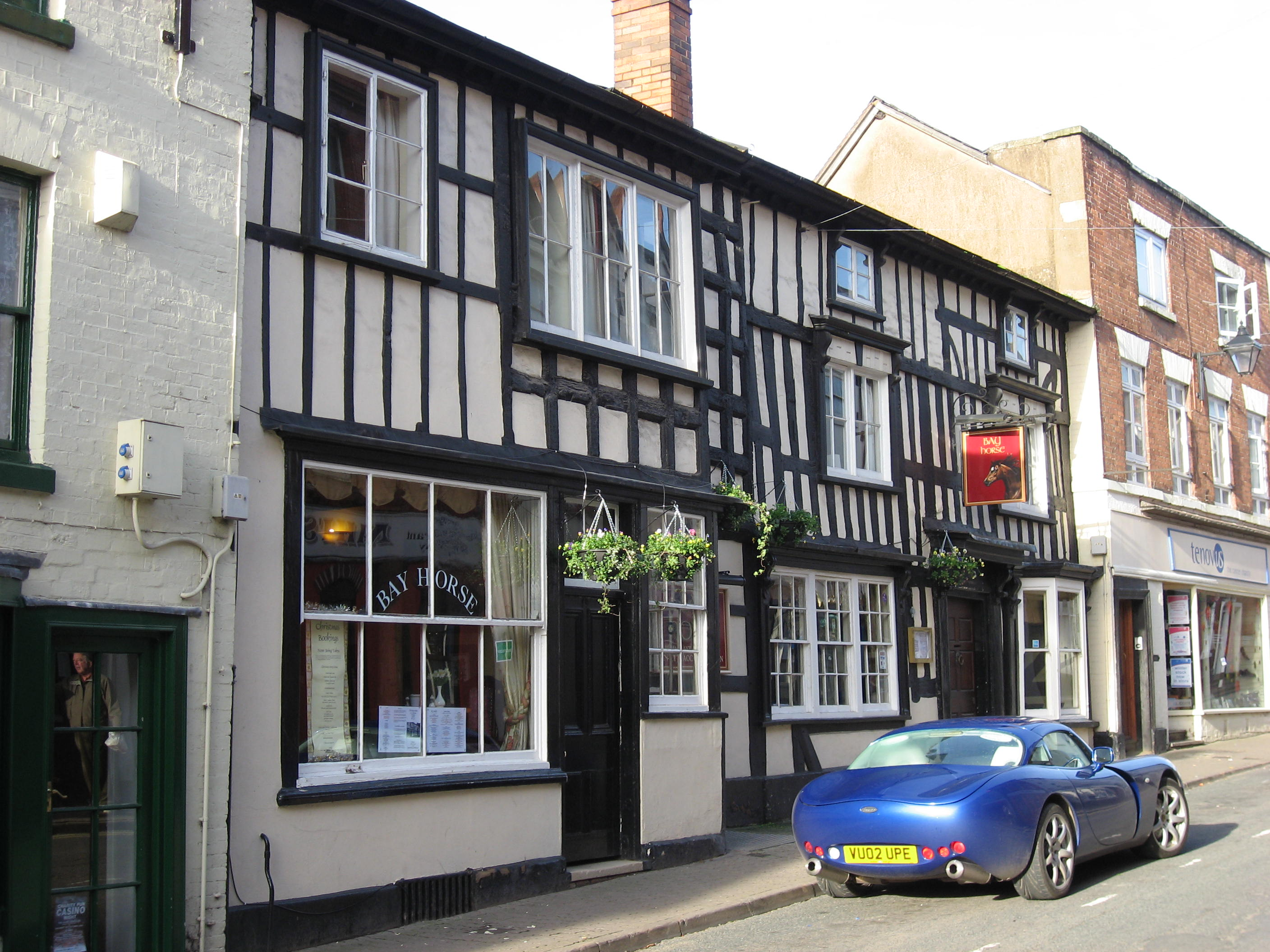 Half-timbered building (the Bay Horse Inn) in Bromyard, Herefordshire, England